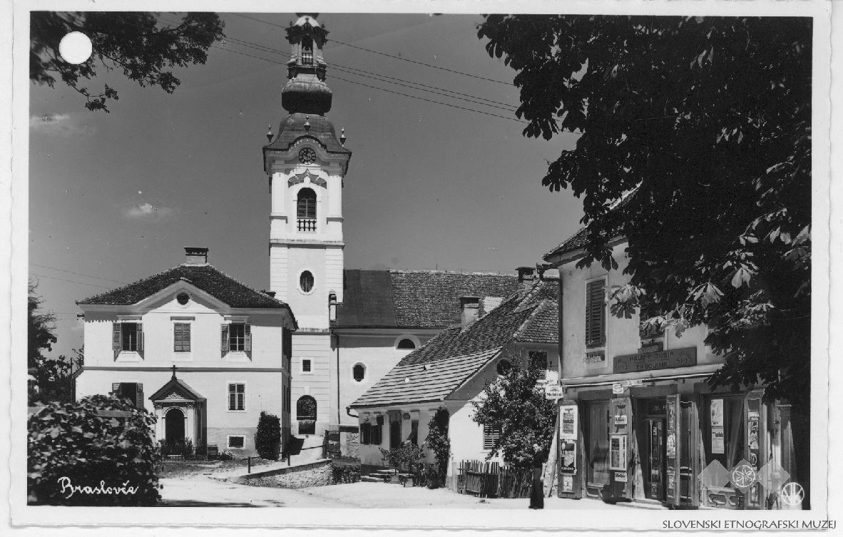 Postcard of Braslovče